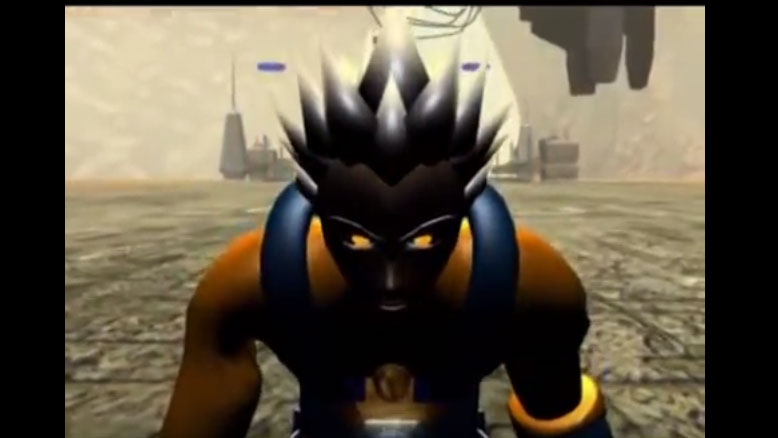 Still at 5 minute 10 seconds of the 6-minute 3D animation video of Fiesta Karera. Entry of De La Salle - College of St. Benilde, Manila Philippines to the 1st Philippine Animation Competition in 2002 which won as the champion in the competition.